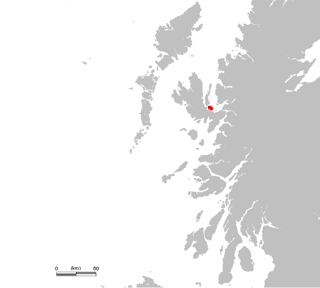 UK Scalpay.PNG (Scotland, Hebrides)